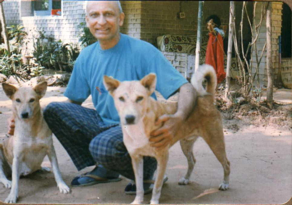 Santal Hound